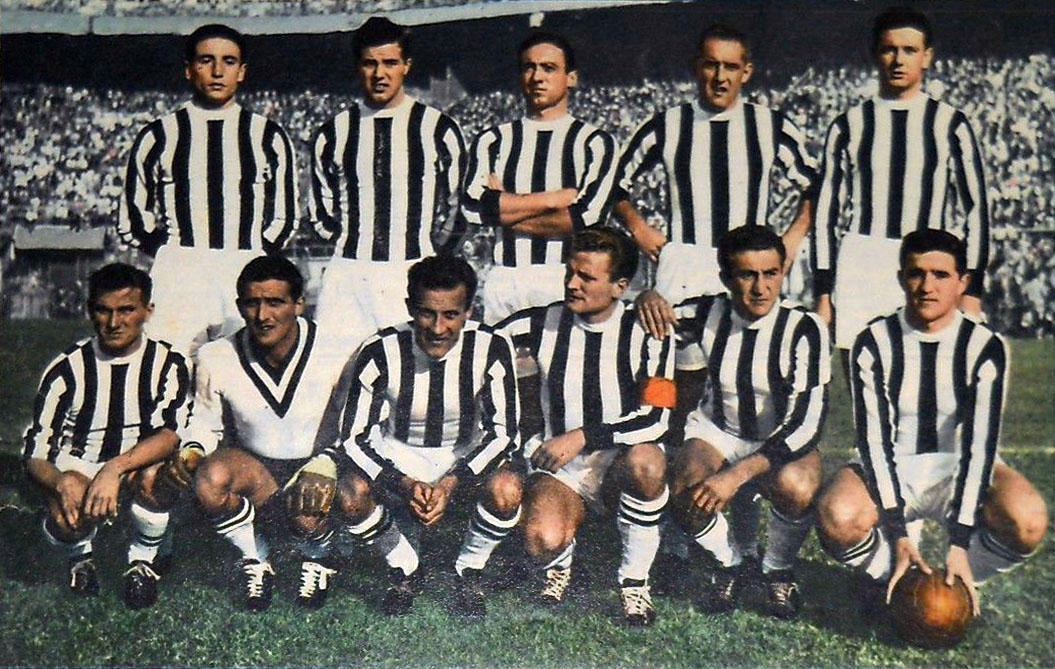 A line-up of Juventus F.C. in the 1956–57 season. Fron left to right, standing: B. Garzena, A. Montico, G. Corradi, C. Nay, U. Colombo; crouched: K. Hamrin, G. Viola, L. Antoniotti, G. Boniperti (captain), R. Conti, F. Emoli.